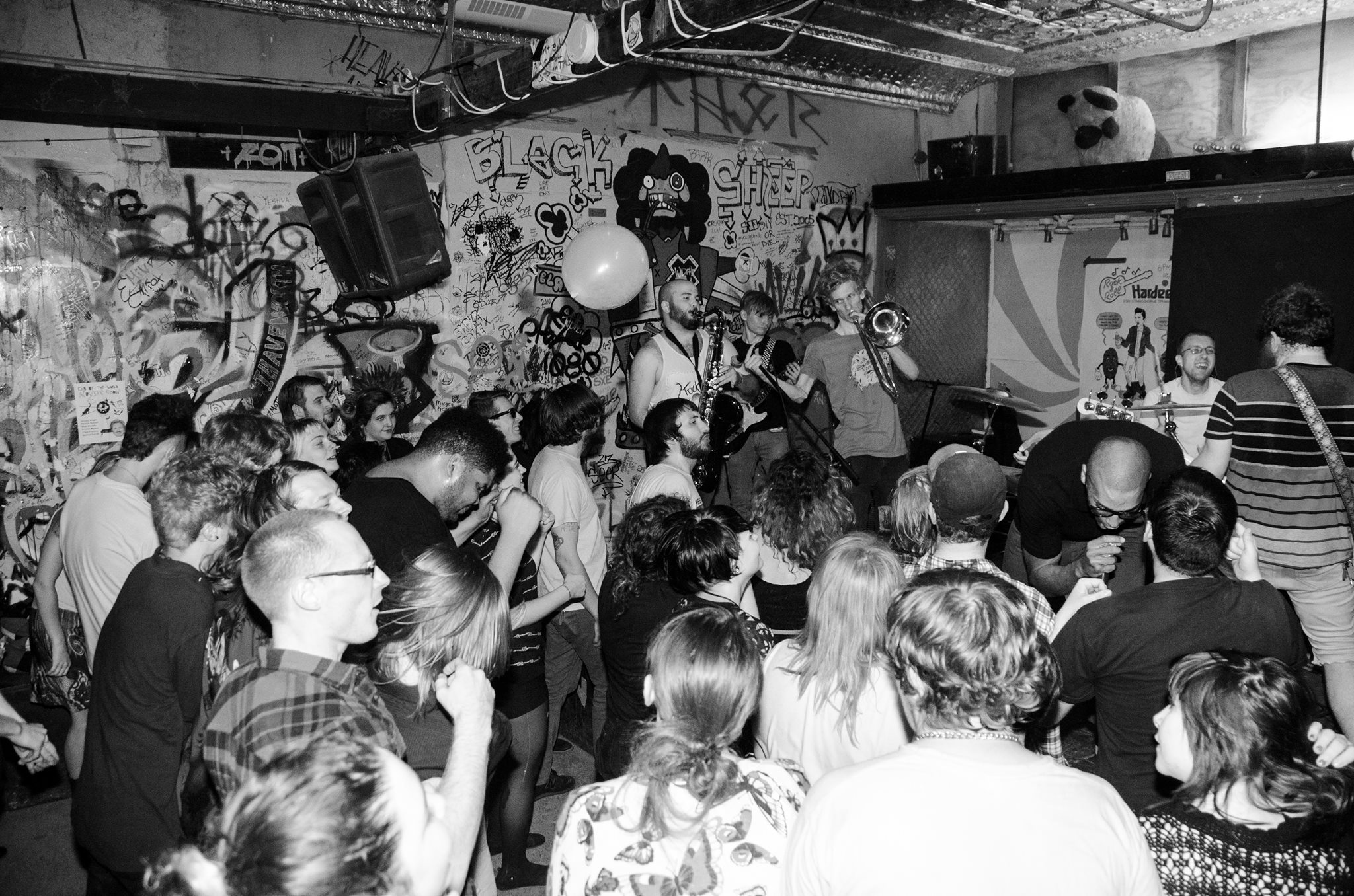 photo by Hieu Luu